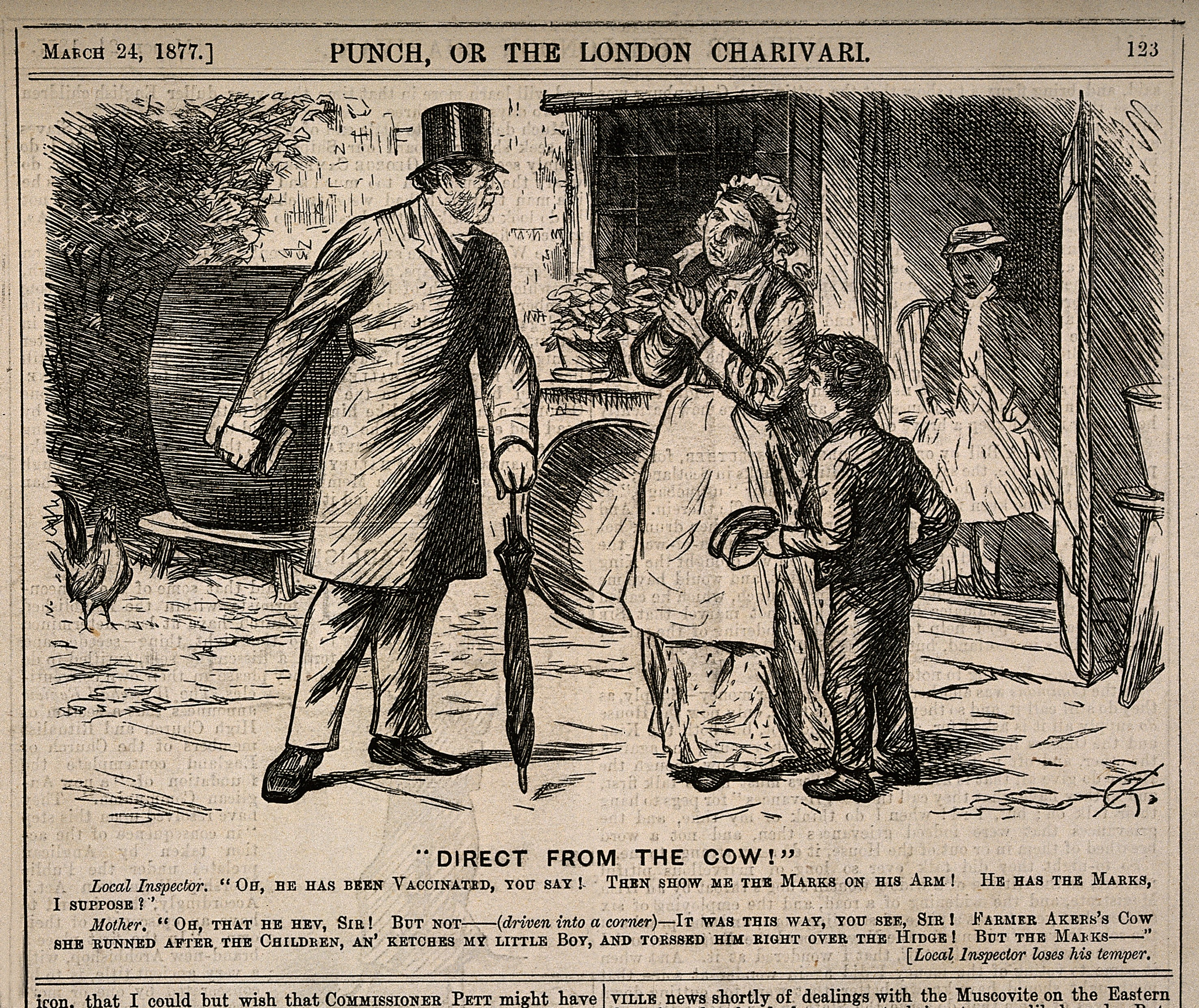 A health inspector dismayed to discover that a mother thinks her child has been vaccinated because he has been butted by a cow. Wood engraving by C. Keane, 1877 Iconographic Collections Keywords: Vaccination; Public Health; health inspector; ic; Charles Keene; icv